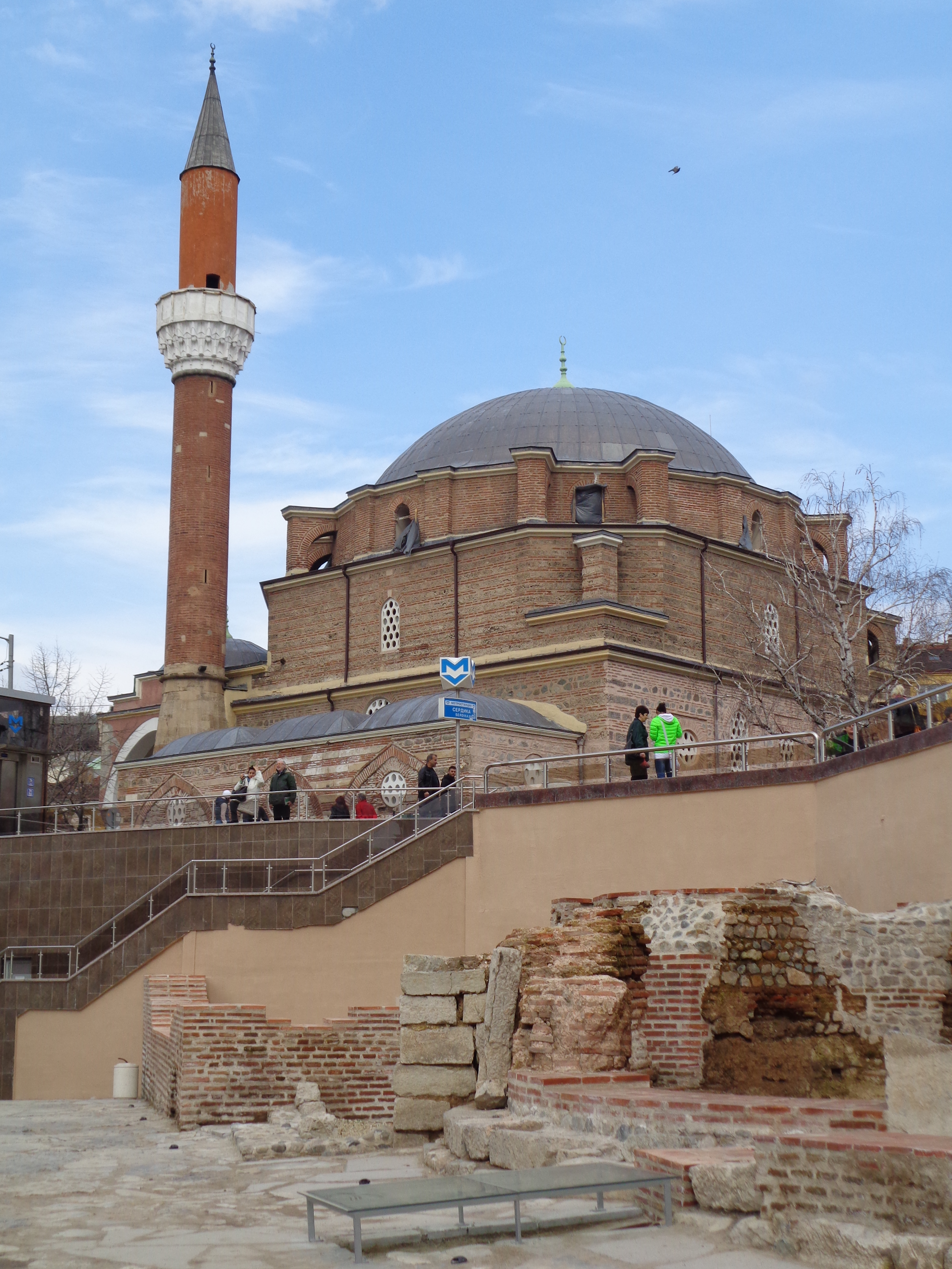 Banya Bashi Mosque and remains of ancient Serdika